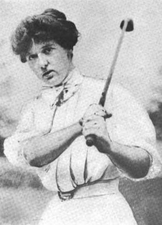 A young white woman grasping a golf club in mid-swing.